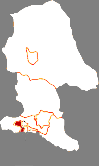 Locator map of Hondlon District in Baotou City, Inner Mongolia, China